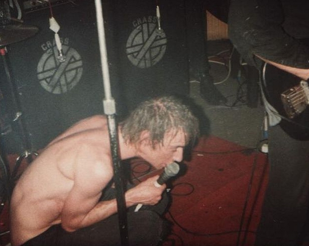 Crass singer Steve Ignorant. Gala Ballroom, Norwich, 5 jun 1981.